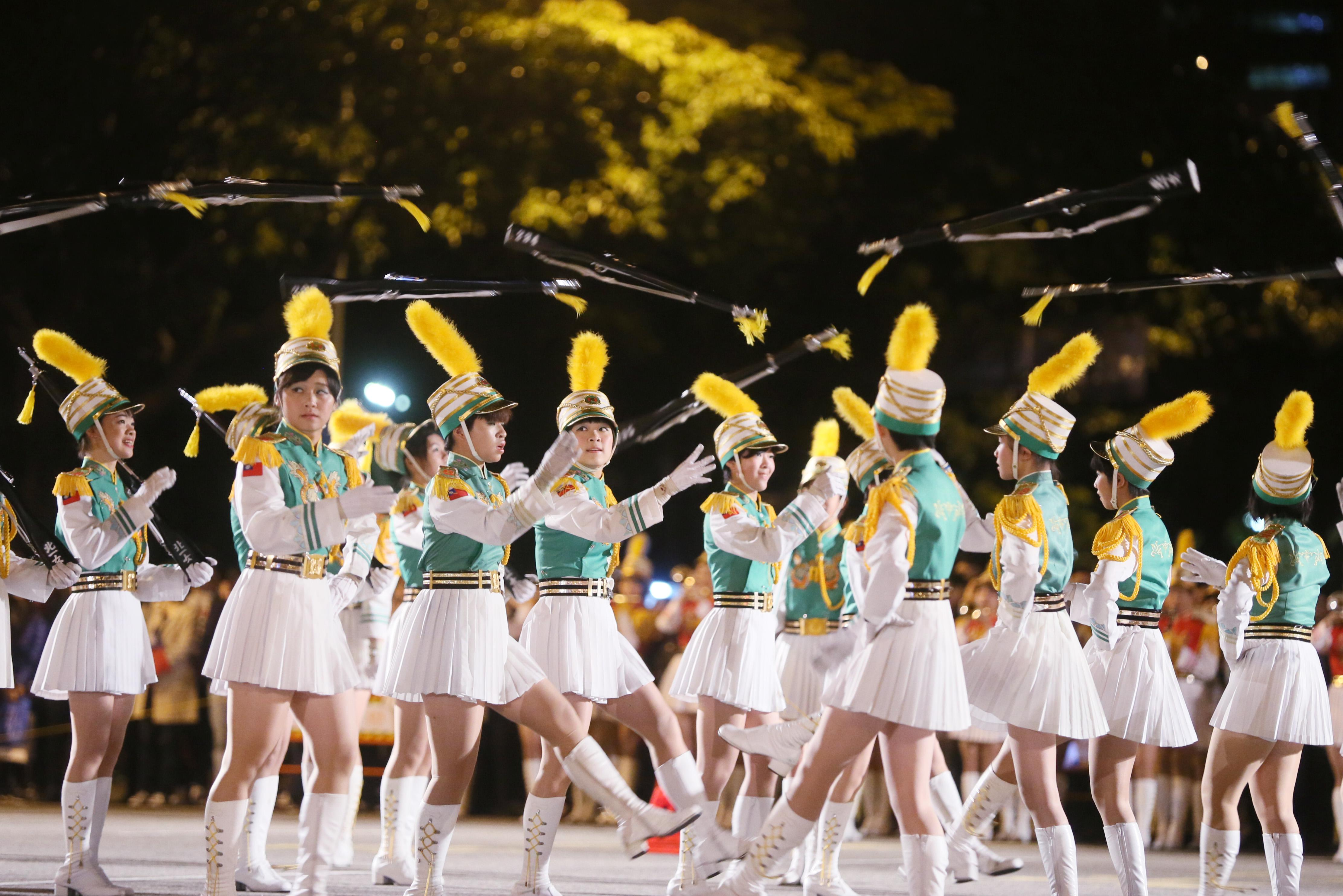 The marching band and honor guards of the Taipei First Girls High School perform rifle spins and tosses. (The ROC’s 2017 New Year flag-raising ceremony in front of the Presidential Office Building, 2017/01/01) 授權方式及範圍：中華民國總統府│政府網站資料開放宣告 Authorization Method & Scope: Office of the President, Republic of China (Taiwan) | Government Website Open Information Announcement